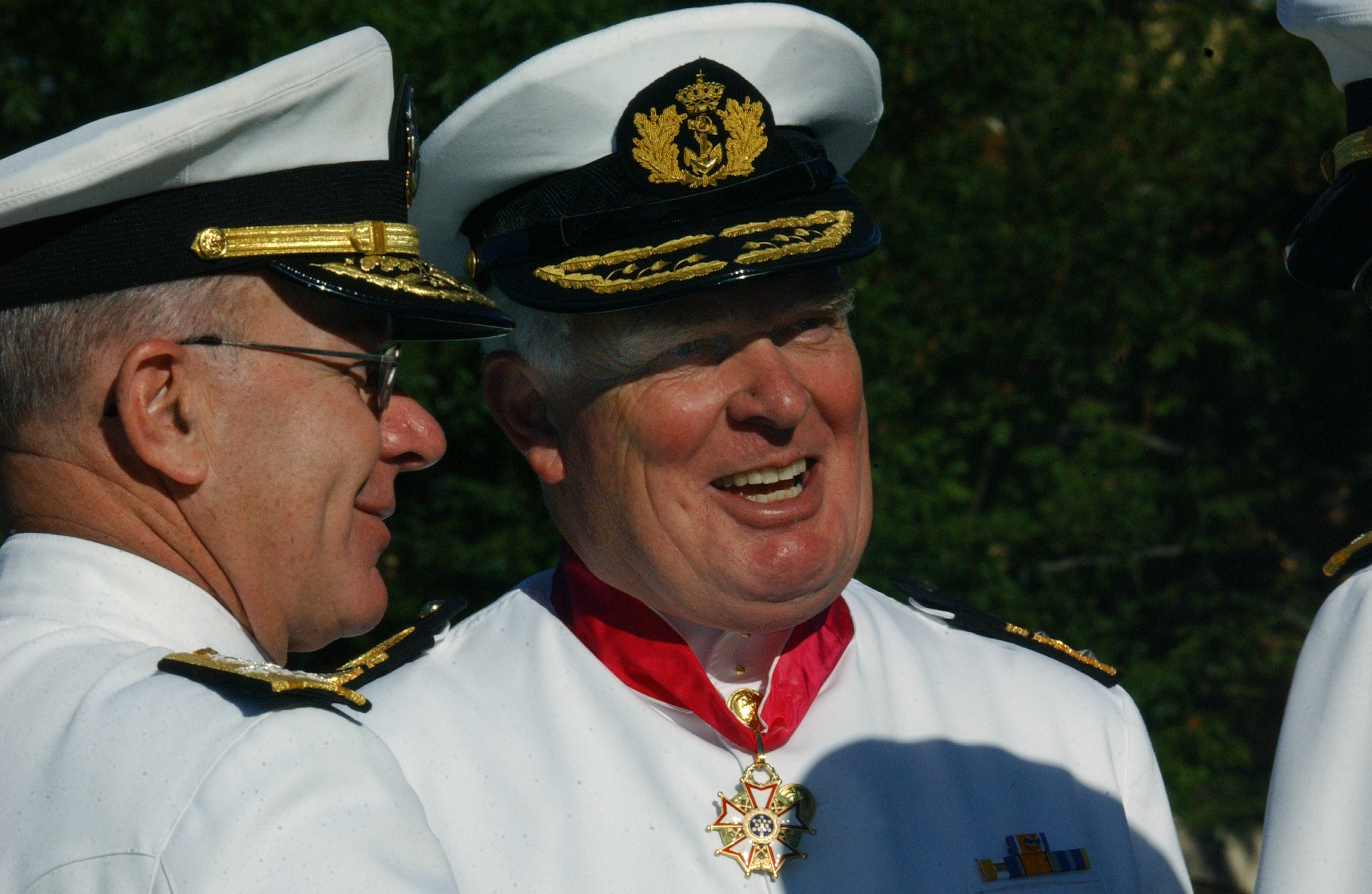 Presented the Legion of Merit by Admiral Vern Clark, Chief of Naval Operations (CNO), Vice Admiral Cees van Duyvendijk, Commander in Chief, Royal Netherlands Navy (center), talks with a member of the official party at the conclusion of a full honors ceremony on his behalf.